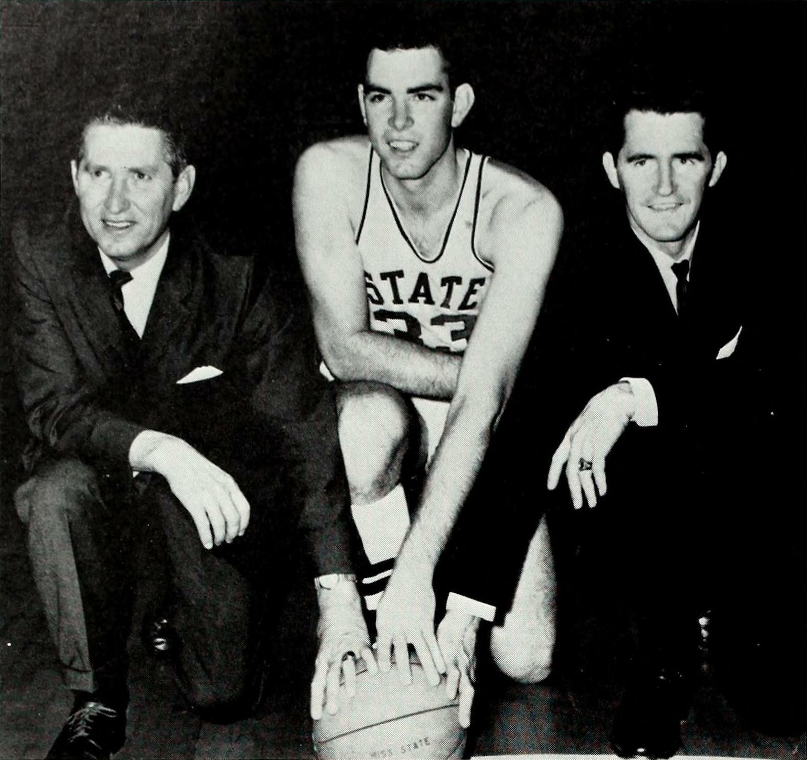 A scanned page from the 1963 edition of Reveille, the yearbook of Mississippi State University